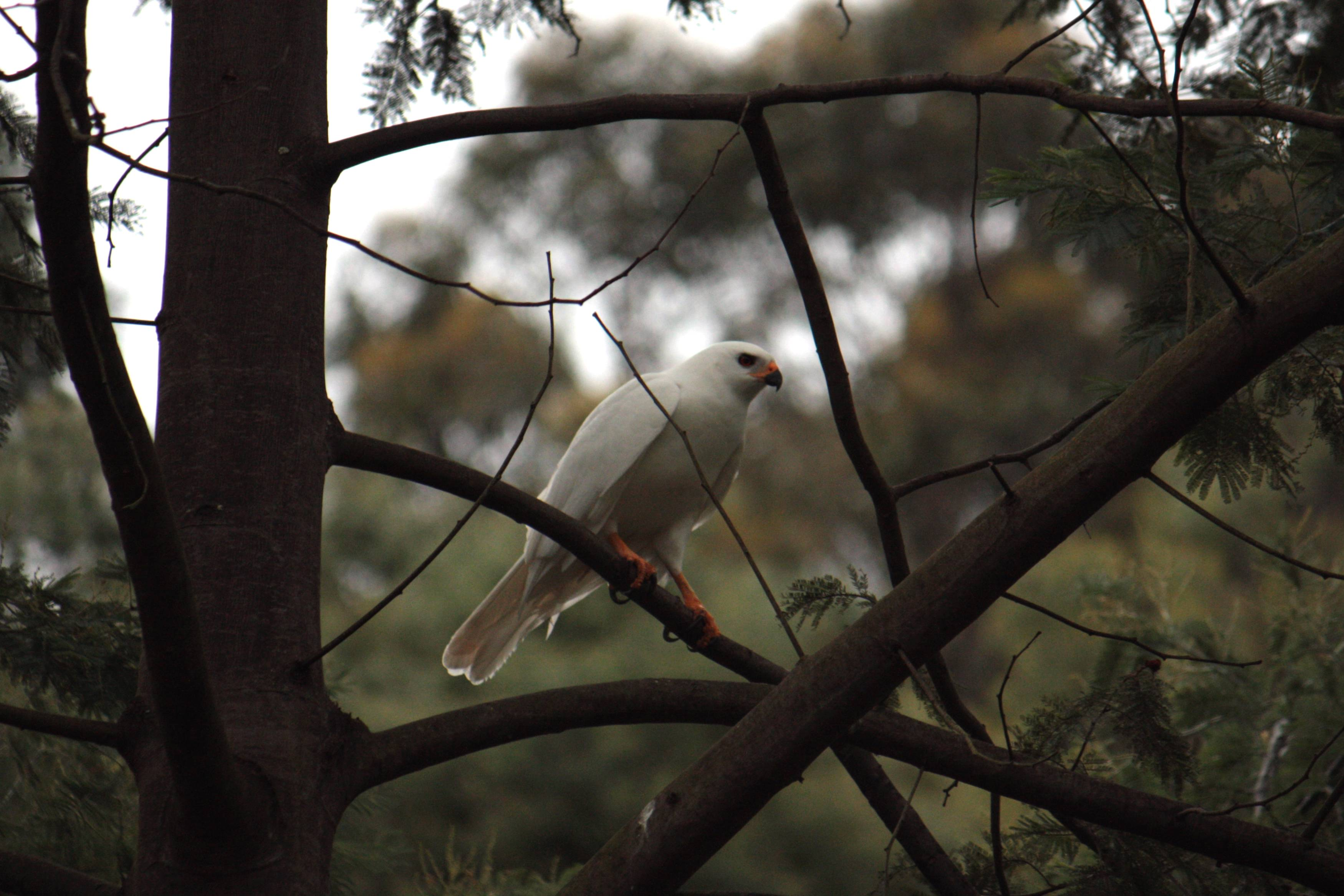 White Goshawk in a Silver Wattle